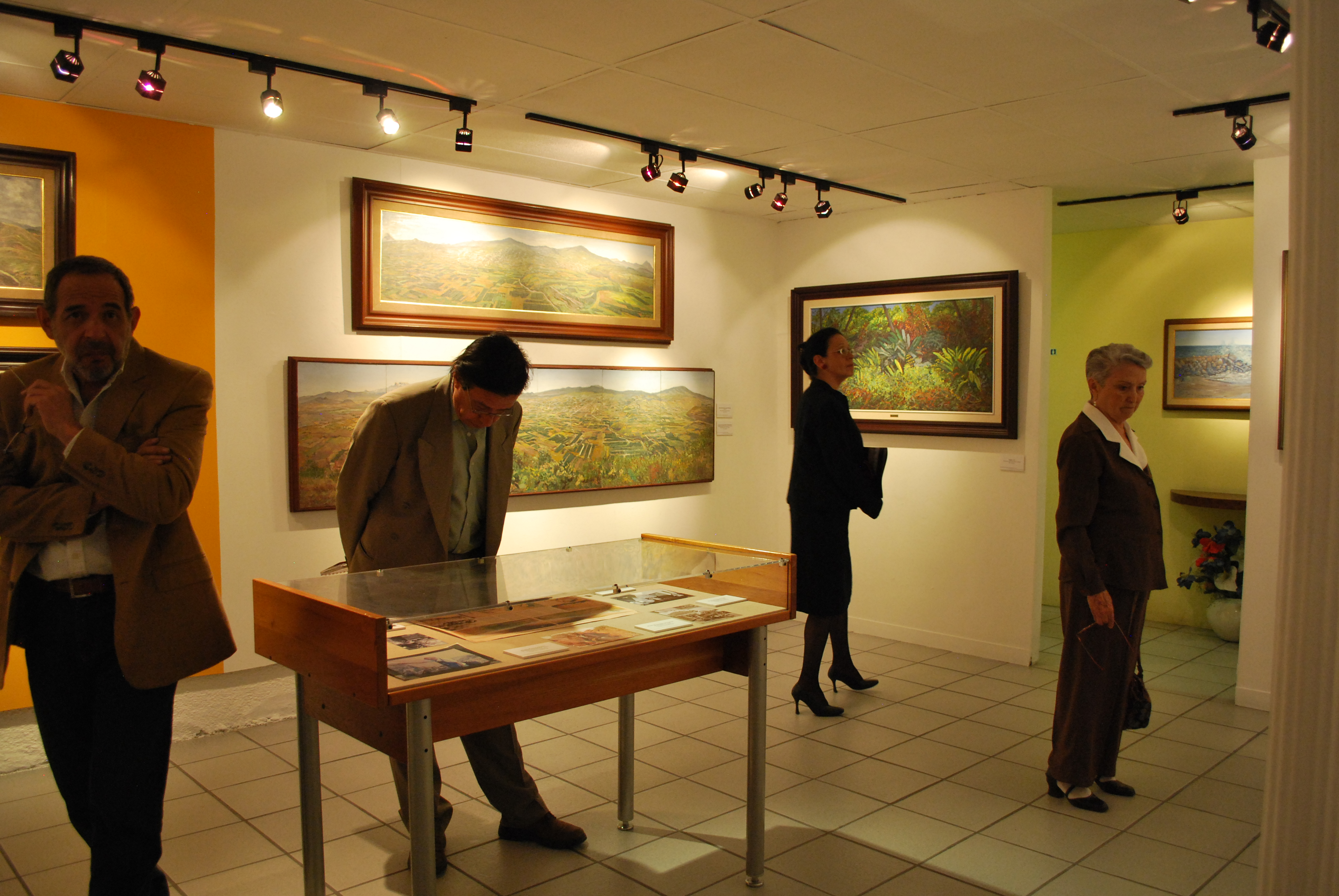 Scene inside the Salón de la Plástica Mexicana in Colonia Roma, Mexico City for the event honoring landscape artist Nicolás Moreno